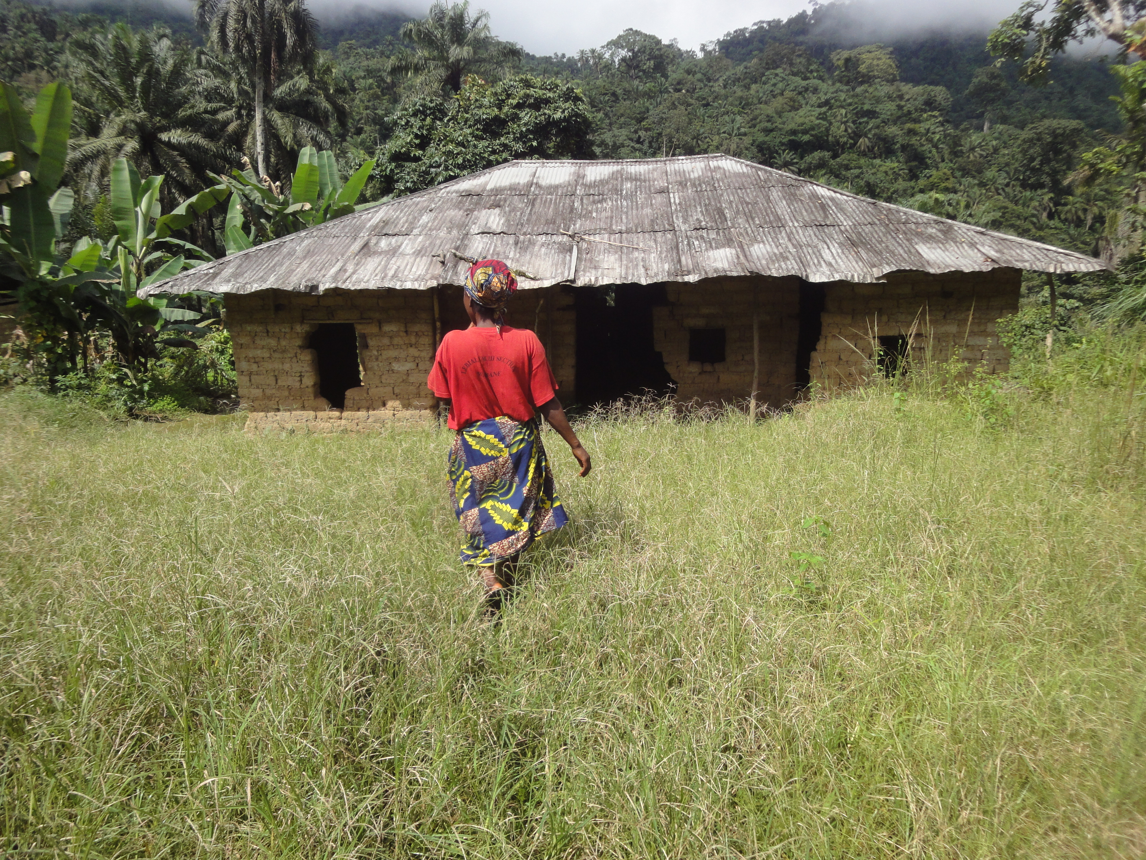 Primary School in Tabot (Wabane), Southwest Region of Cameroon